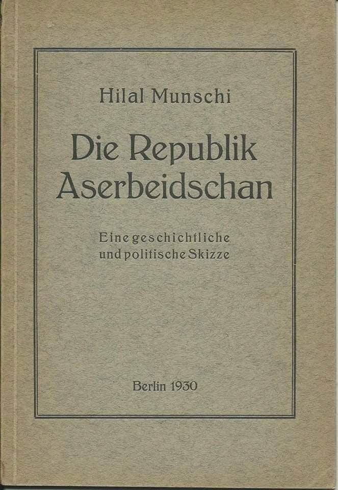 Cover of the book by Hilal Munshi «Azerbaijan Republic»